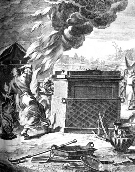 Death of Nadab and Abihu, by Matthias Scheits (circa 1630-circa 1700)